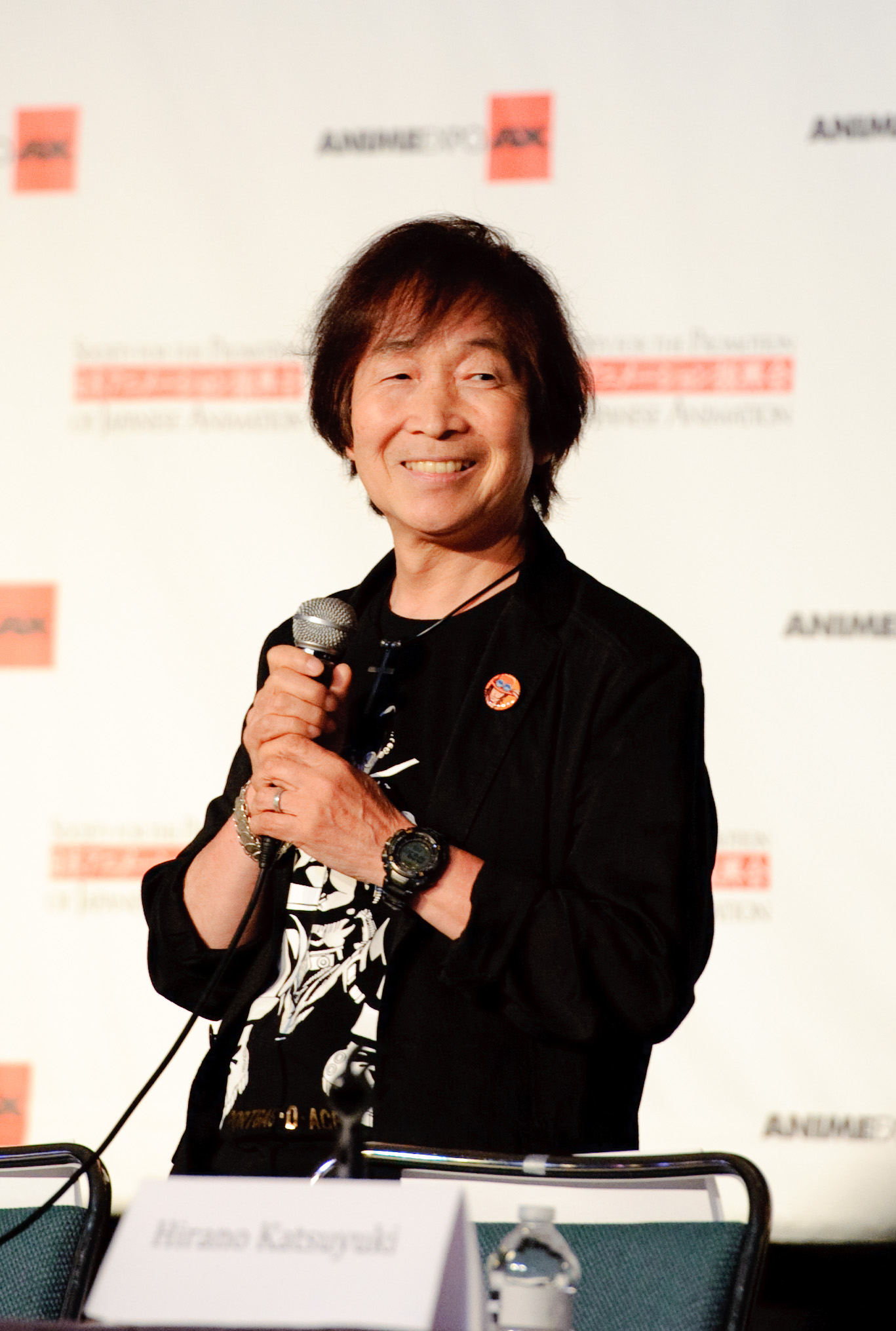 Toshio Furukawa, the voice actor of Piccolo from Dragon Ball. But even beyond that, this guy unexpectedly owns.